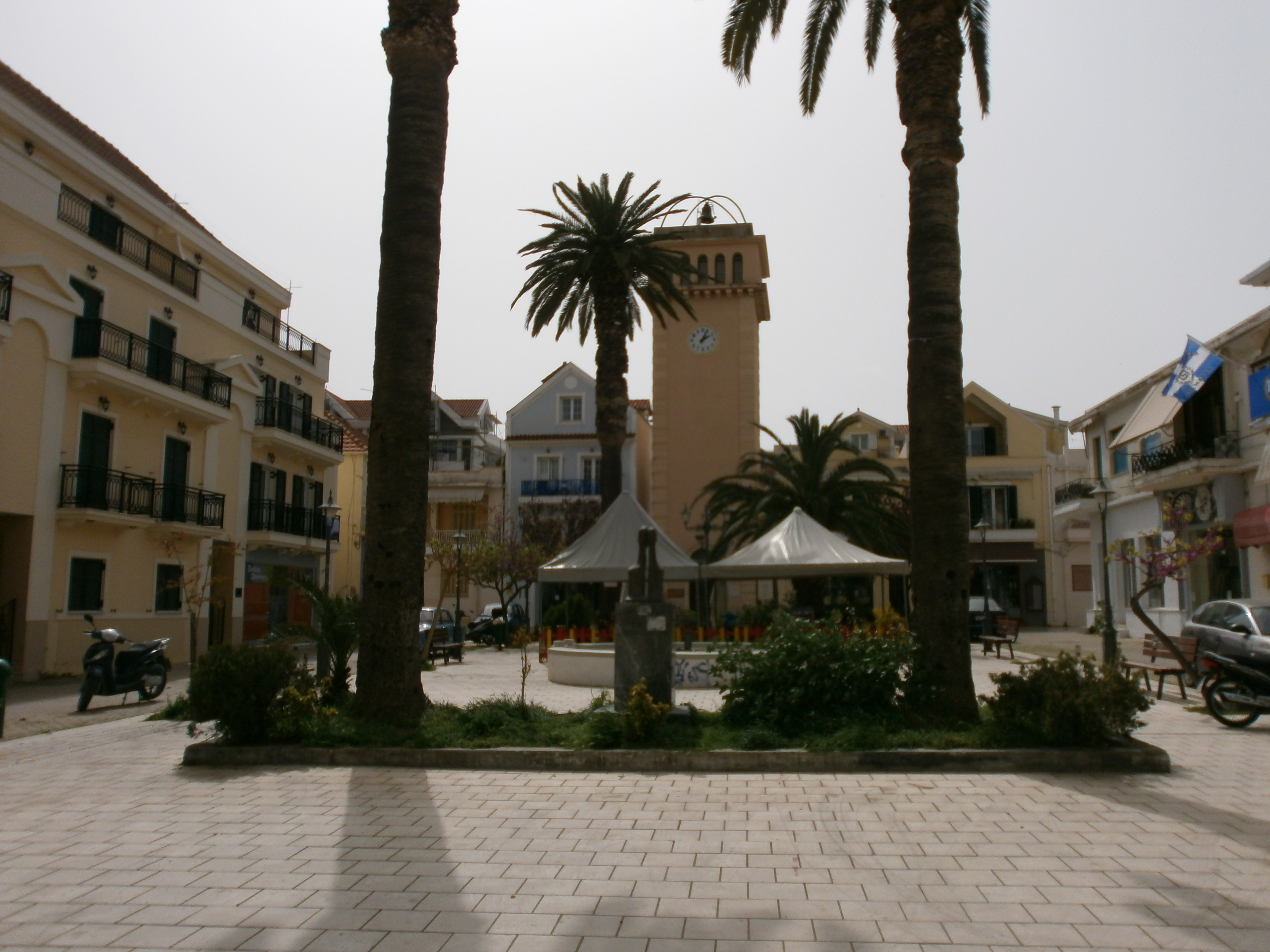 Kambana ("Bell Tower") Square in Argostoli, Kefalonia, Greece.